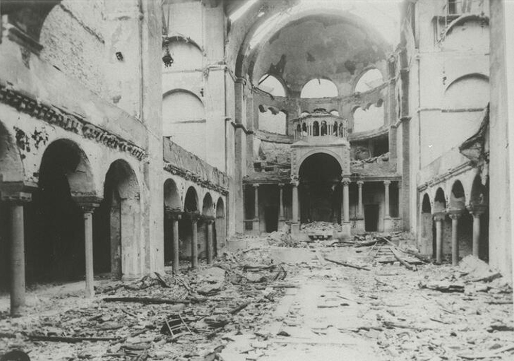 Interior view of the destroyed Fasanenstrasse Synagogue, Berlin, burned on Kristallnacht; November Pogroms.